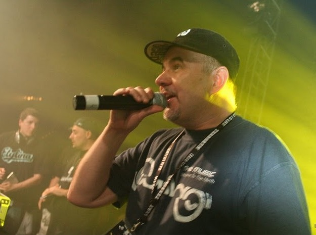 Polish journalist, DJ Hieronim Wrona.